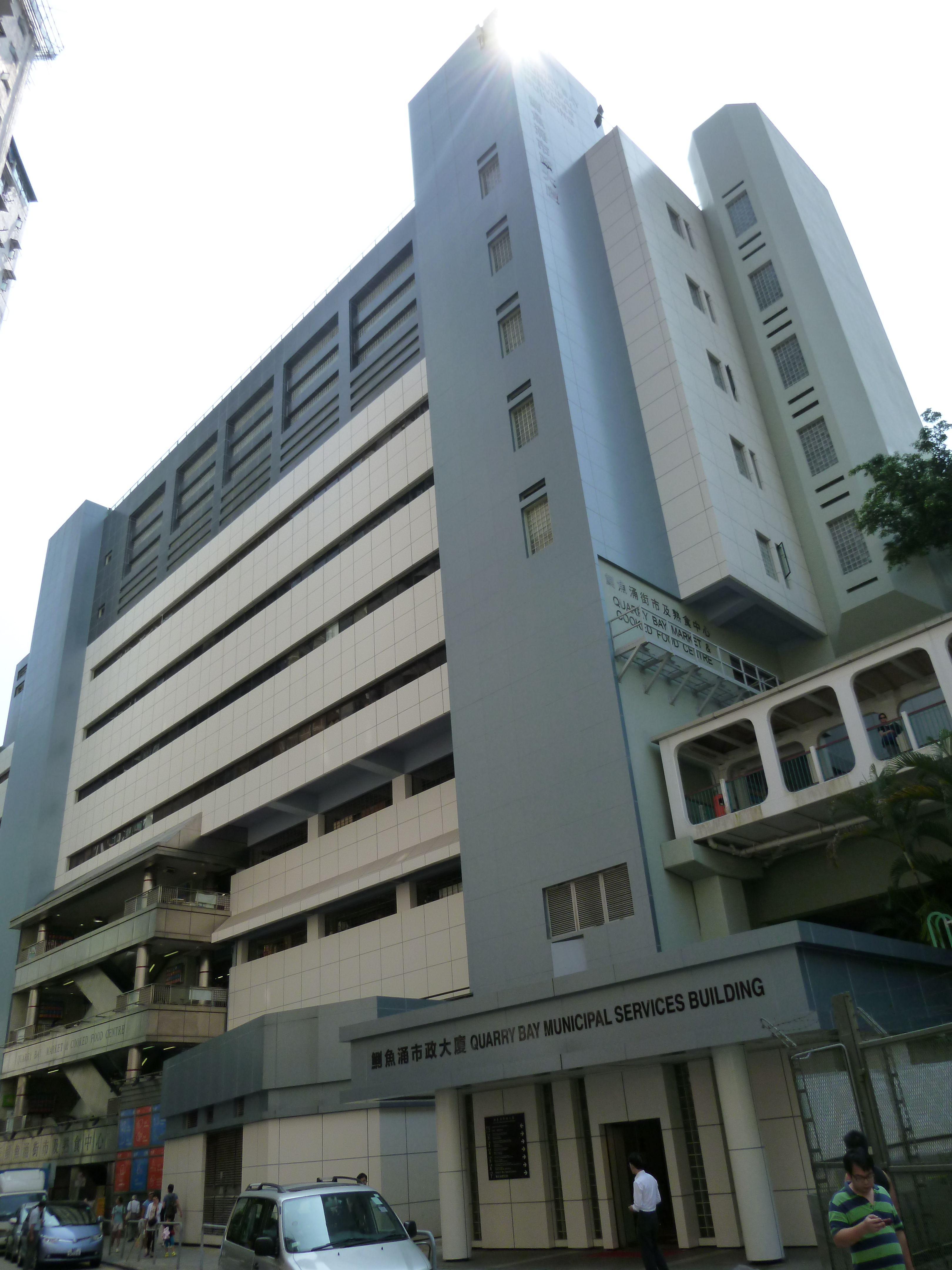 Quarry Bay Municipal Services Building (38 Quarry Bay Street, Hong Kong) 中文（香港）: 鰂魚涌市政大廈 (香港東區鰂魚涌鰂魚涌街38號)